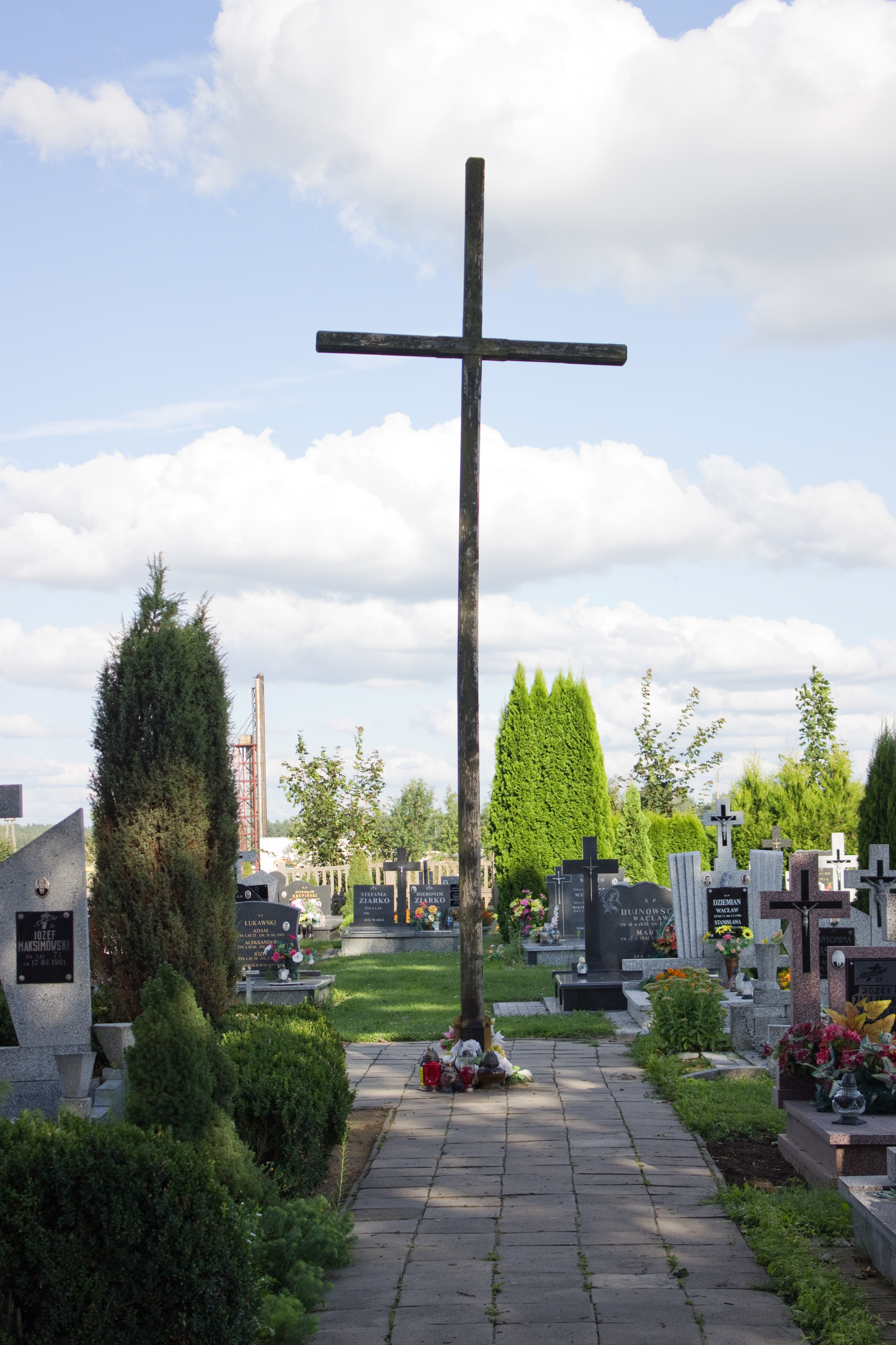 Cemetery, Pisanica, gmina Kalinowo, powiat ełcki, Warmian-Masurian Voivodeship